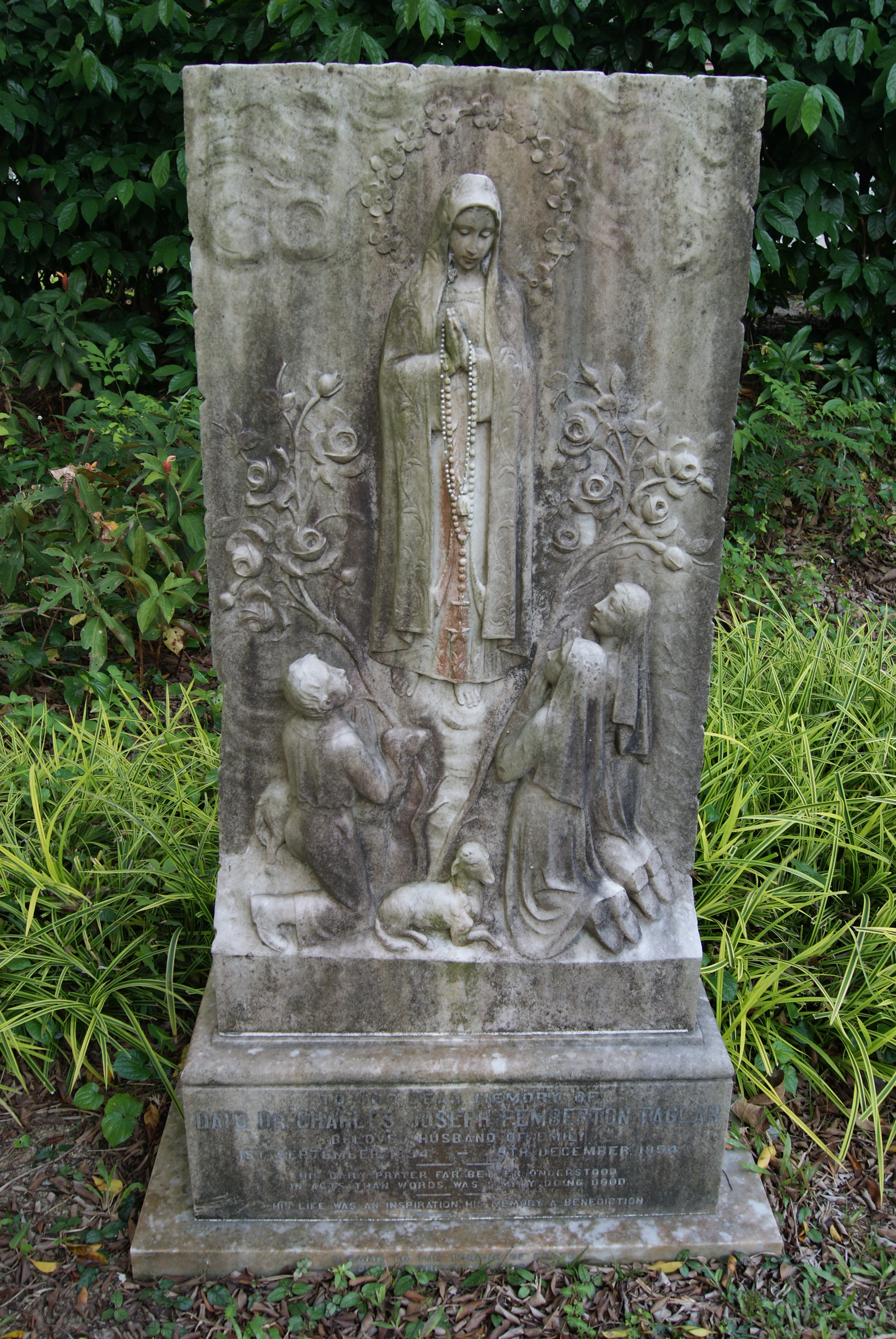 Gravestone of Dato' Dr. Charles Joseph Pemberton Paglar (1 September 1894 – 9 December 1954) at Bidadari Garden at 10 Vernon Park, Singapore 367812. Paglar was a surgeon and philanthropist. He was the President of the Eurasian Welfare Association during the Japanese occupation of Singapore. For services to the Sultanate and the State of Johor, he was later conferred the Crown of Johor and the title of Dato'.